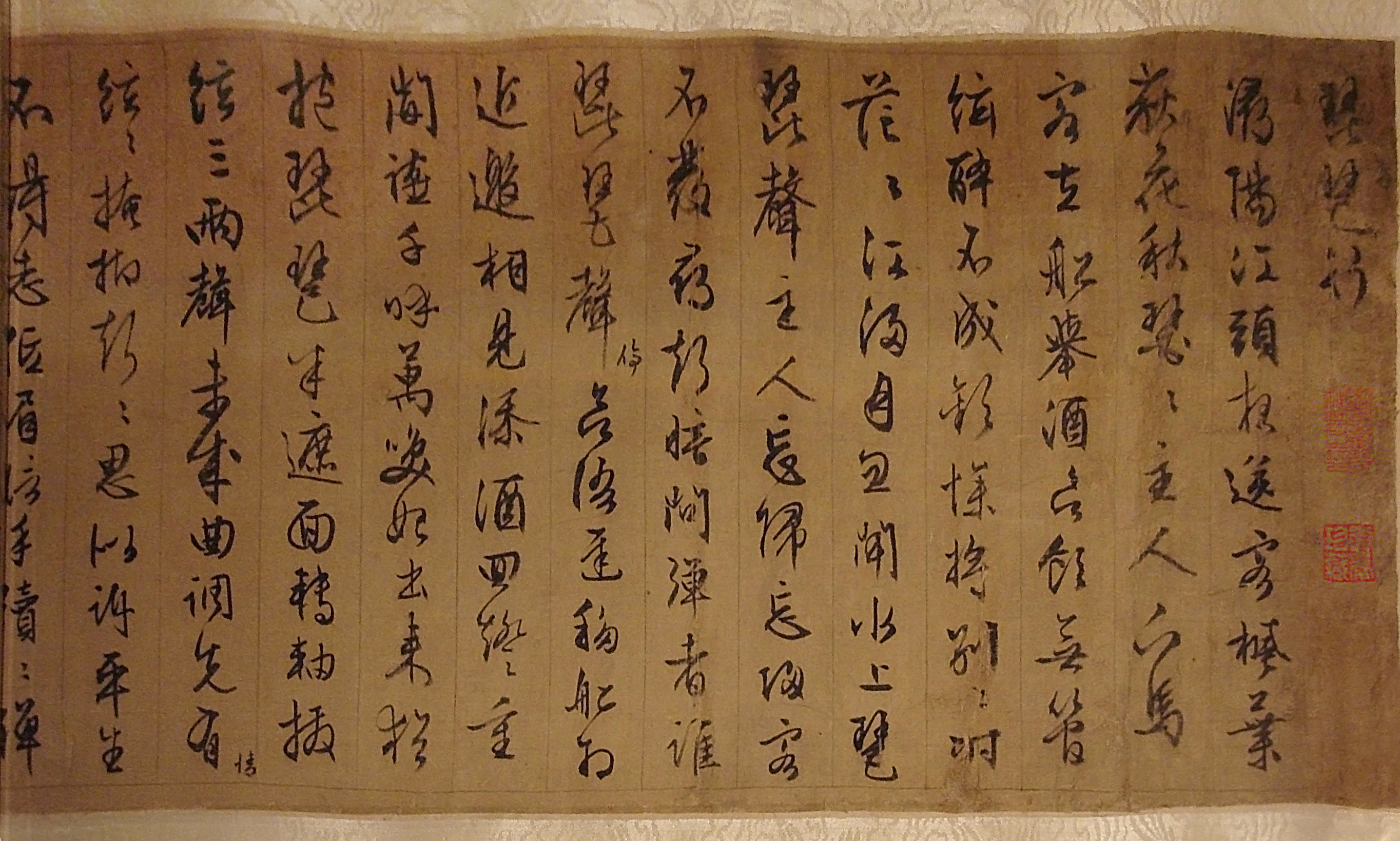 Pi Pa Xing in running script, calligraphy by Wen Zhengming. Ming Dynasty (A.D. 1368 - 1644) Composed by renowned Tang Dynasty poet Bai Juyi, this poem was written on silk by Ming Dynasty calligrapher Wen Zhengming; he was a specialist in all forms of calligraphy, but this form displays his consummate skill. Two of his seals can be seen at the bottom of the calligraphy. The poem reads: 大絃嘈嘈如急雨 : The bold strings rattled like splatters of sudden rain, 小絃切切如私語 : The fine strings hummed like lovers' whispers. 嘈嘈切切錯雜彈 : Chattering and pattering, pattering and chattering, 大珠小珠落玉盤 : As pearls, large and small, on a jade plate fall.